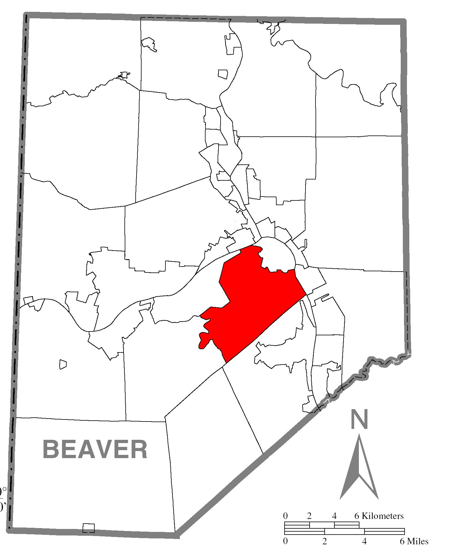 A map of Beaver County showing Center Township, Pennsylvania (alternate) highlighted on the map.